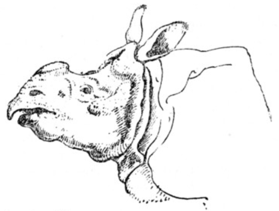 Schema of the rhinoceros of Versailles by Petrus Camper.